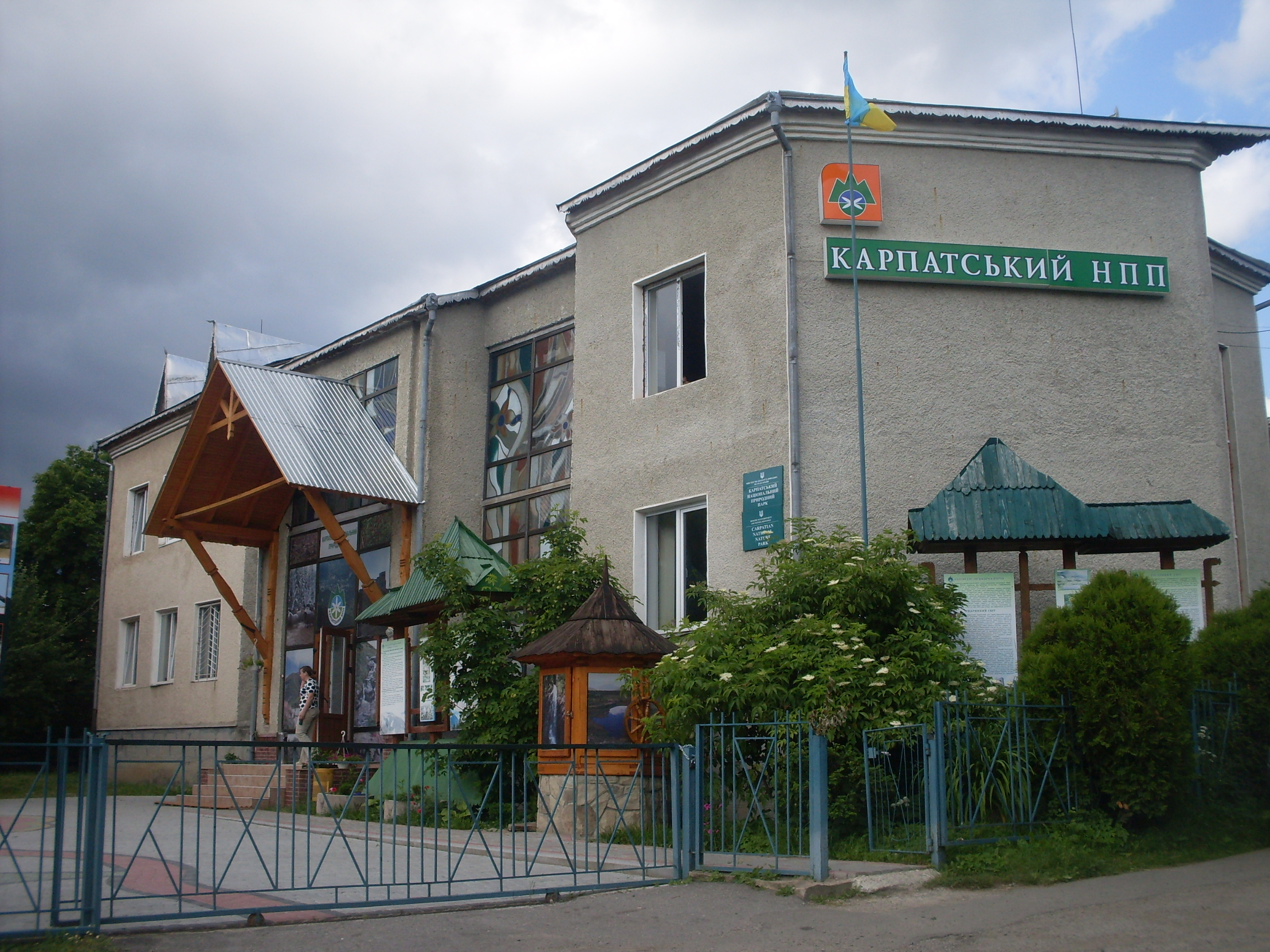 Carpathian National Park Administration building in Yaremche